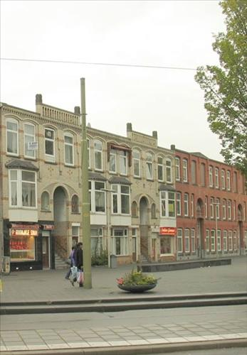 Paul Krugerplein, Transvaal, The Hague